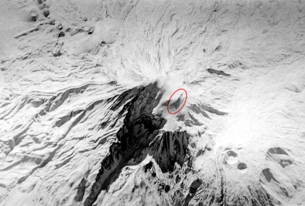 Mount Ararat panoramic image with the Ararat anomaly circled in red by researcher Porcher Taylor, taken on December 20, 1973, by the CIA's KH-9 Hexagon (aka Keyhole-9) satellite and since declassified.